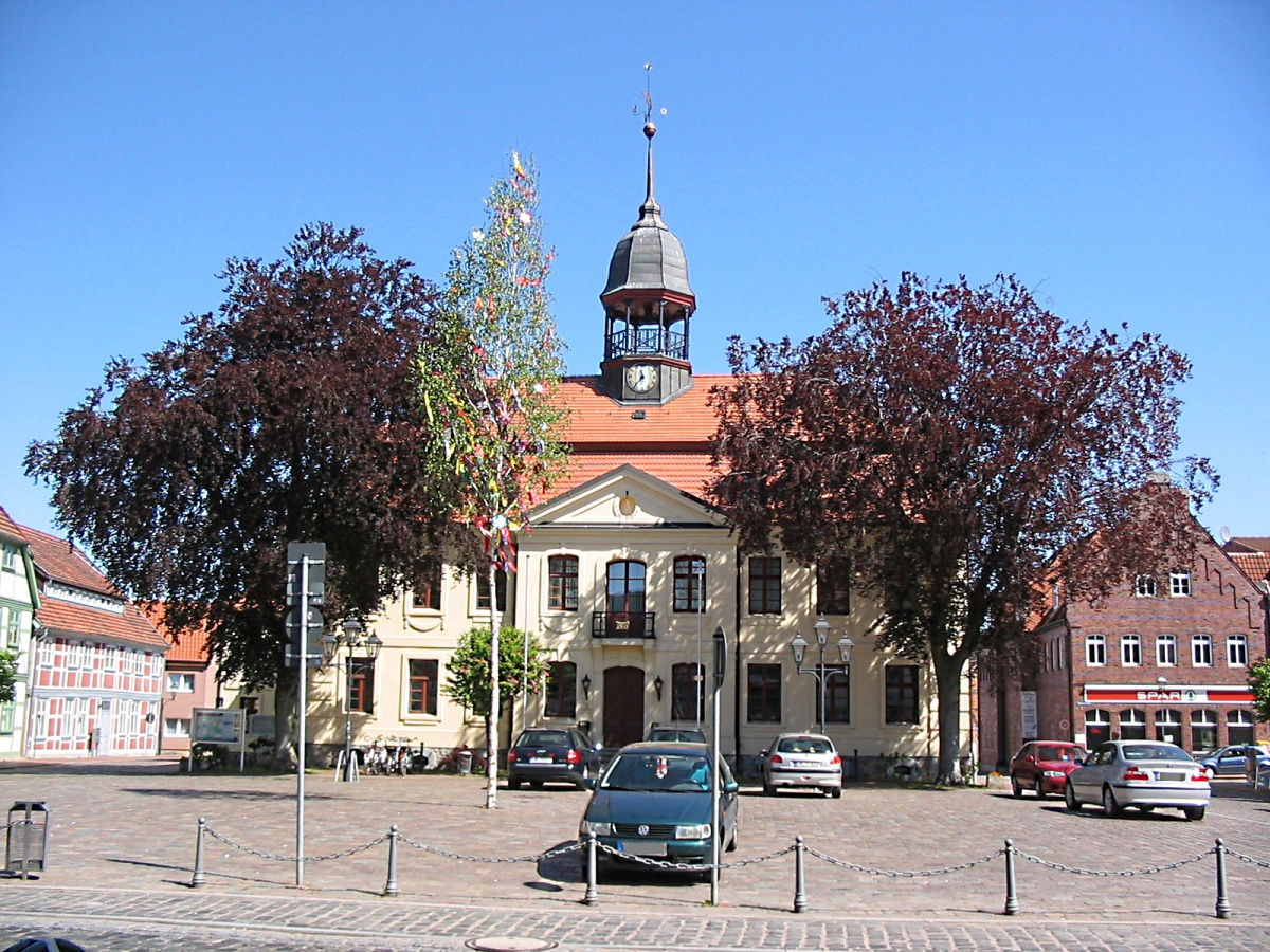 town hall of Neustadt-Glewe, (Germany)